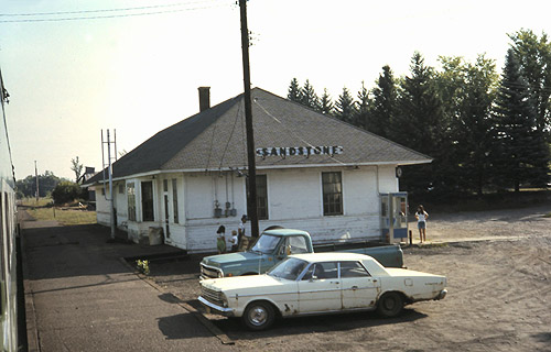 The Arrowhead at Sandstone station in August 1976